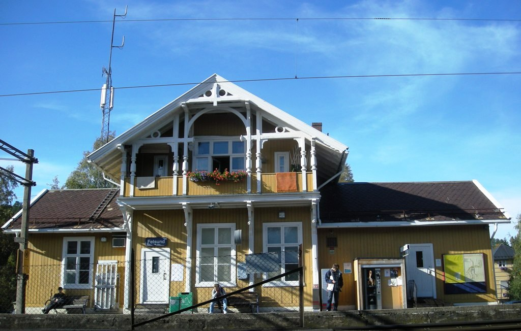 Fetsund station on the Kongsvinger line (Akershus, Norway)